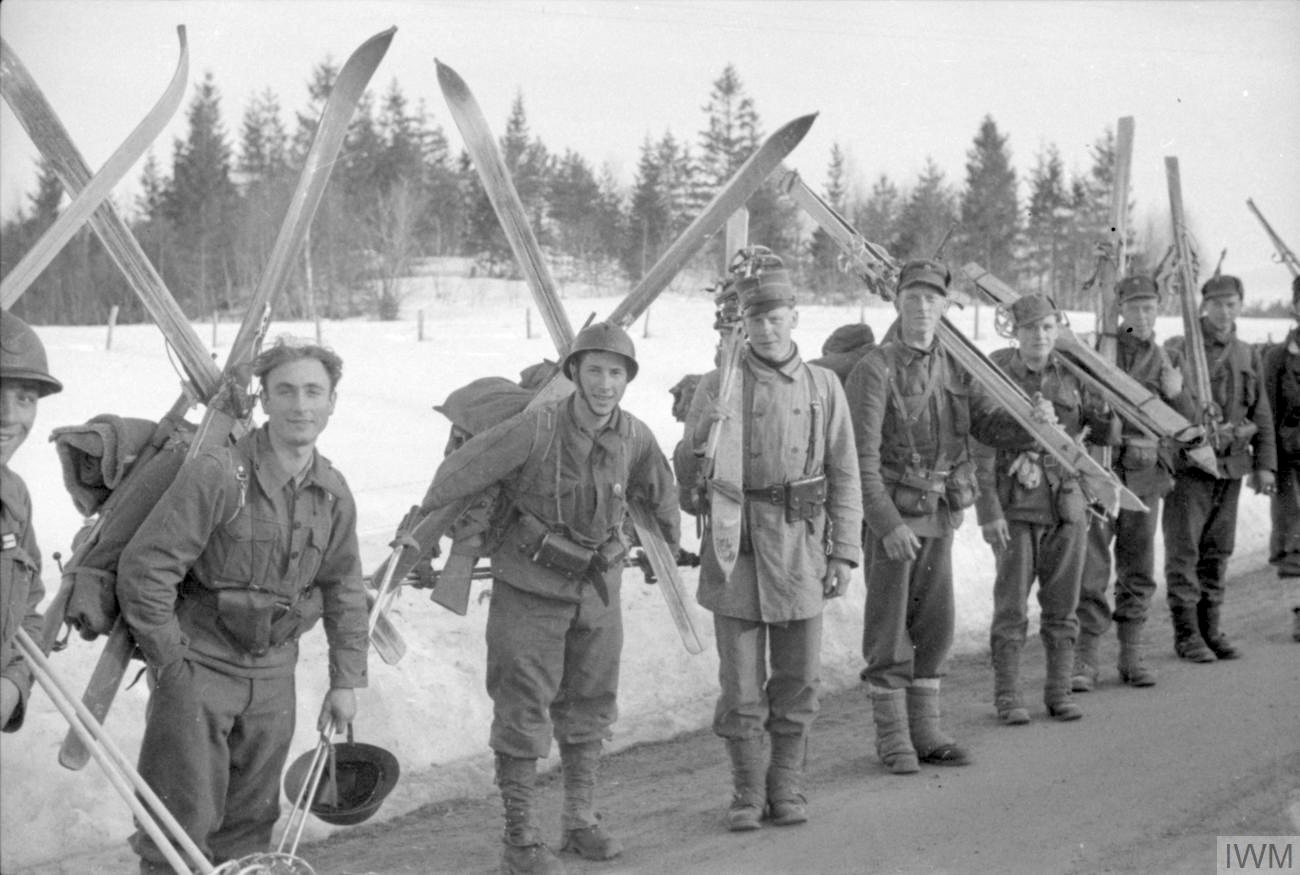 The British Army in Norway April - June 1940